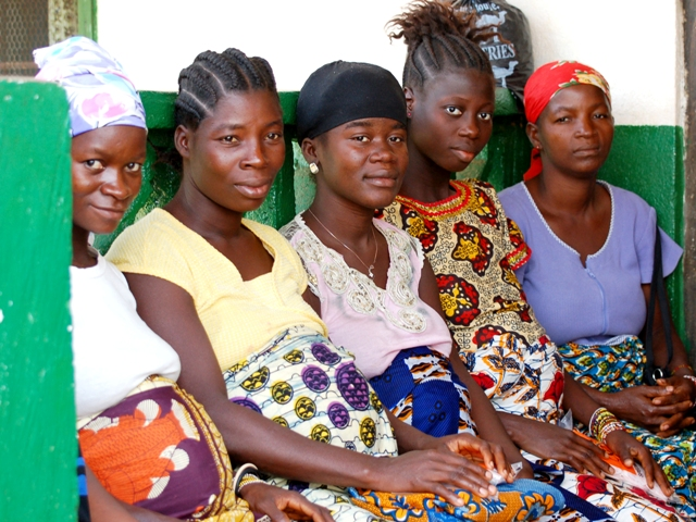 USAID is helping Liberia restore quality women's health services. (USAID)